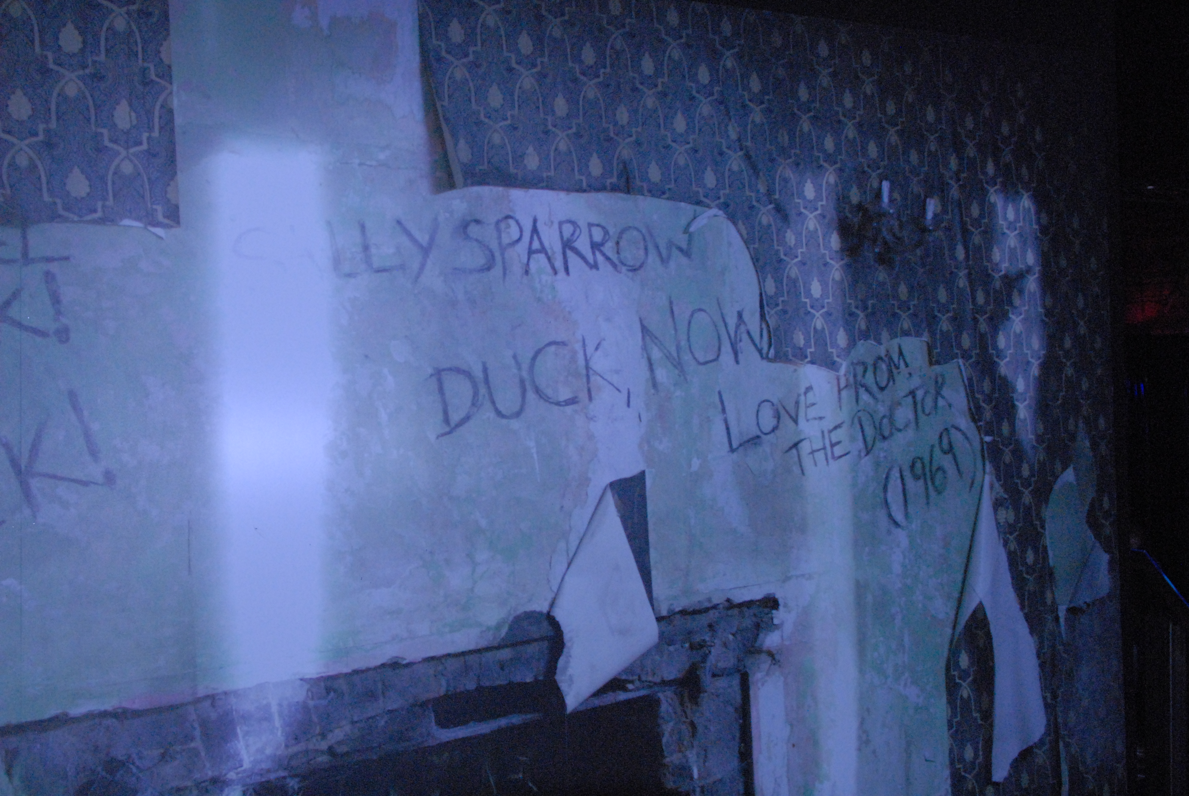 from episode "Blink" Doctor Who Experience